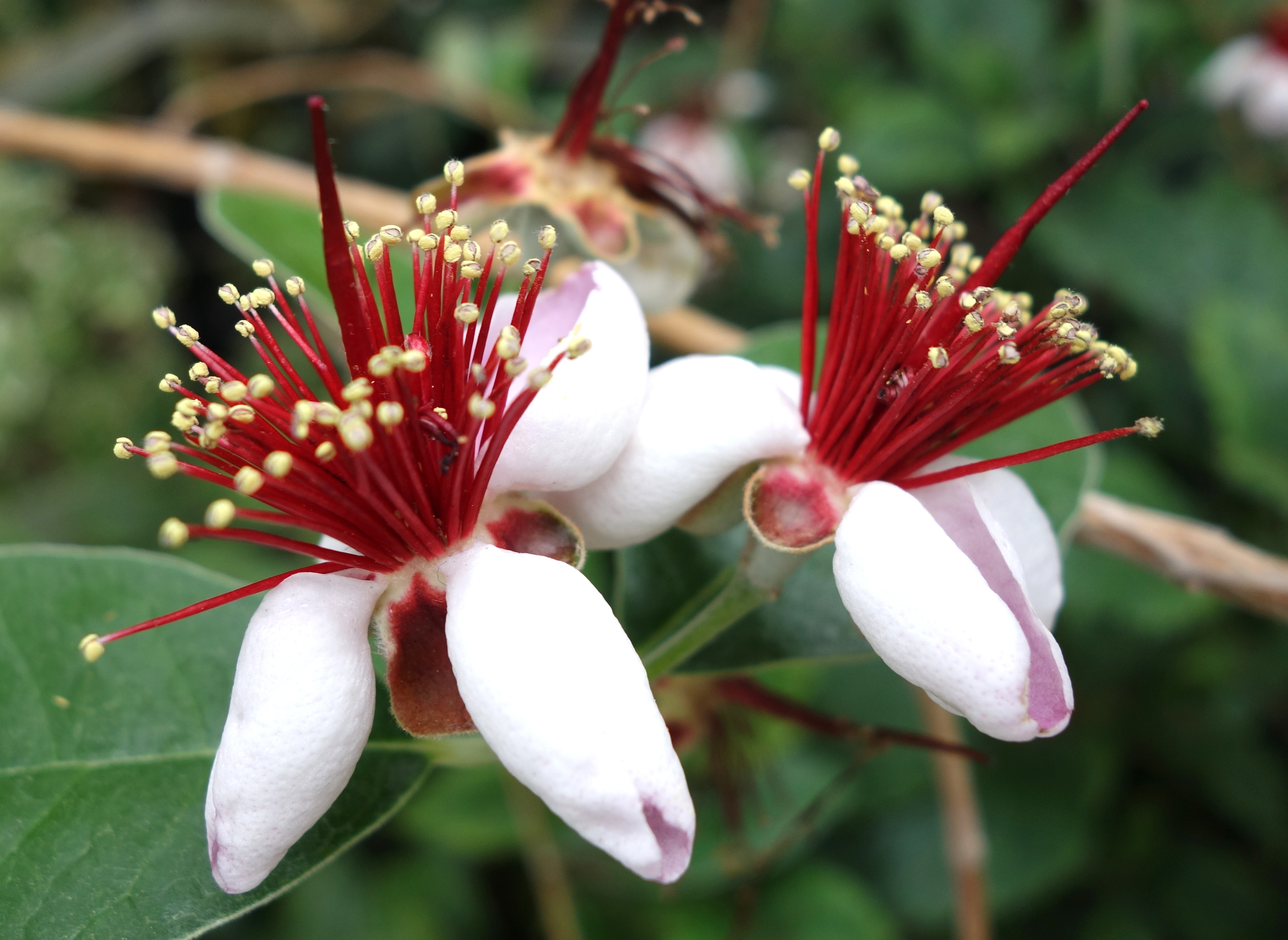 Botanical specimen in Longwood Gardens, 1001 Longwood Rd, Kennett Square, Pennsylvania, USA.